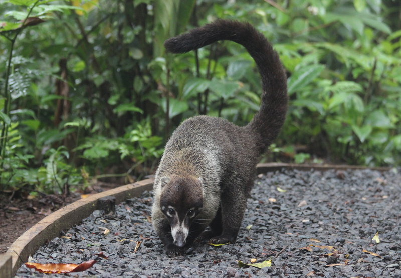 A white-nosed coati.